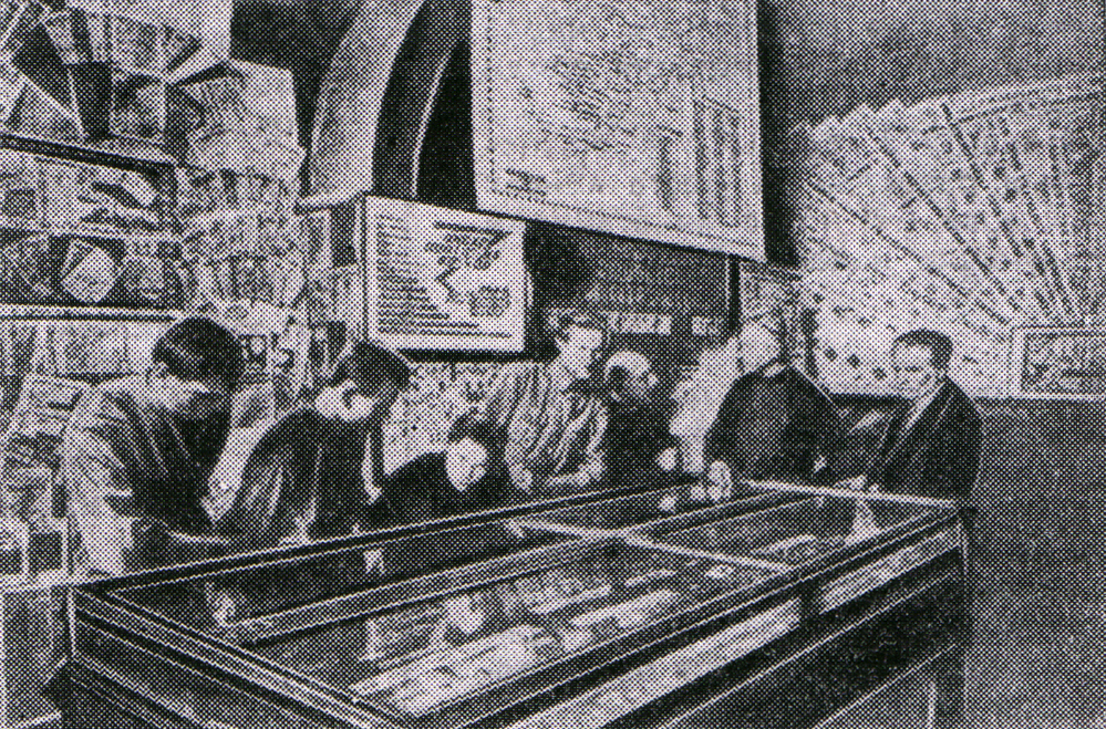 Photo from the First All-Union Philatelic Exhibition, 1924